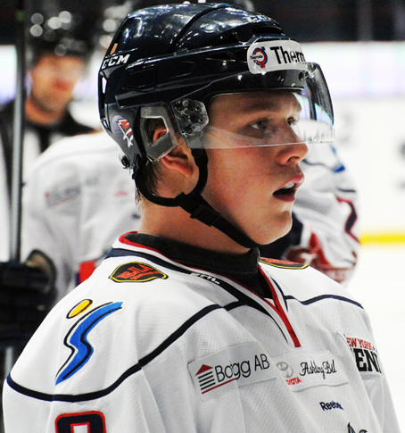 Jesper Pettersson during a SHL game against AIK.